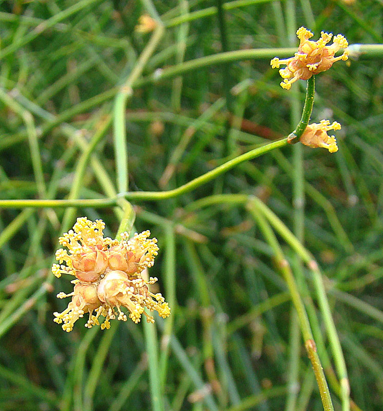 An Argentine species, but here at the Quail (now San Diego) Gardens. Male flowers. In context at